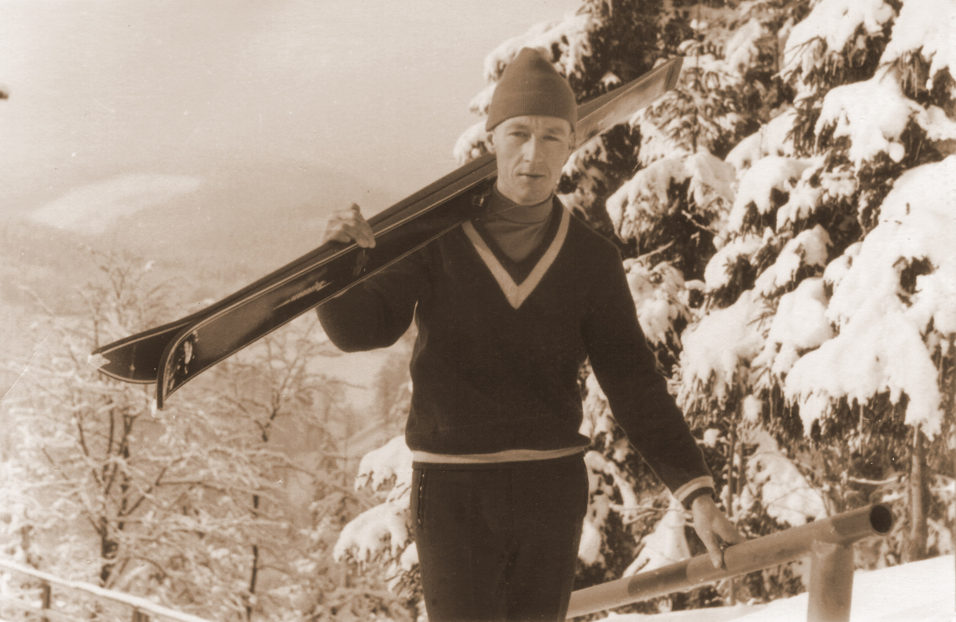 German ski jumper Peter Lesser in Oberhof in the year 1963